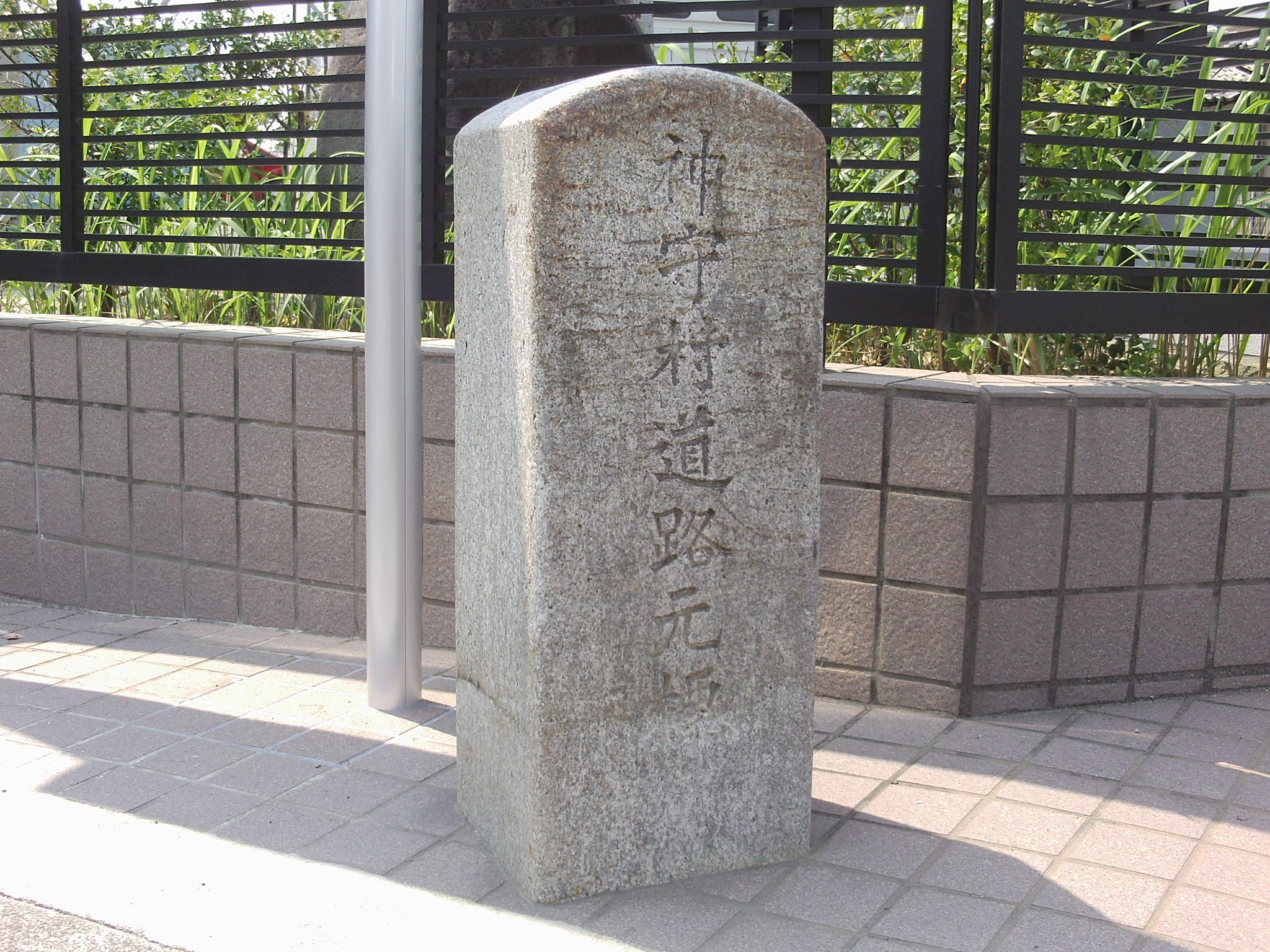 Kilometre zero of Kamori village. (Kamori village, Ama-gun, Aichi.)